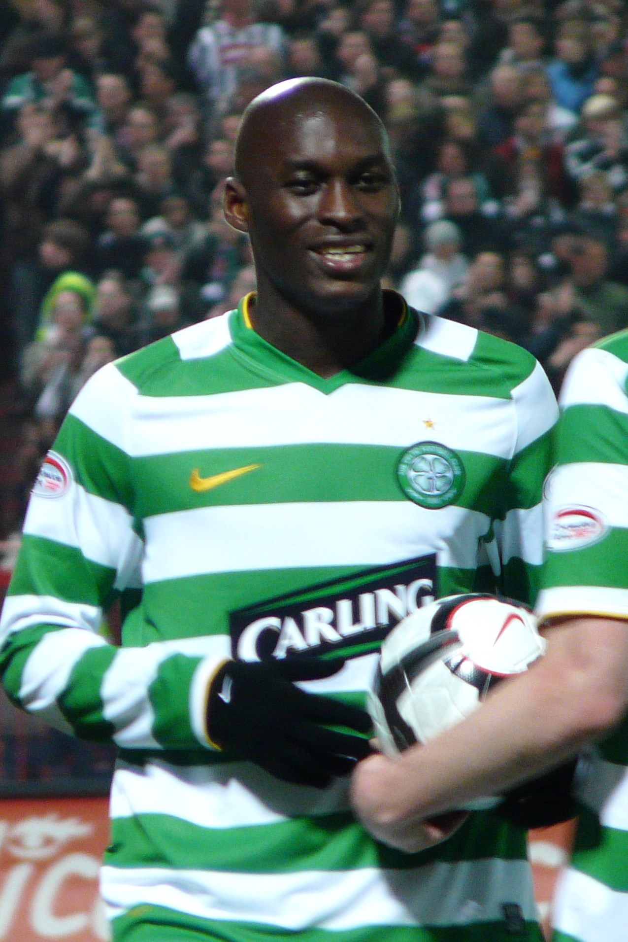 Marc-Antoine Fortuné as Player from Celtic Glasgow